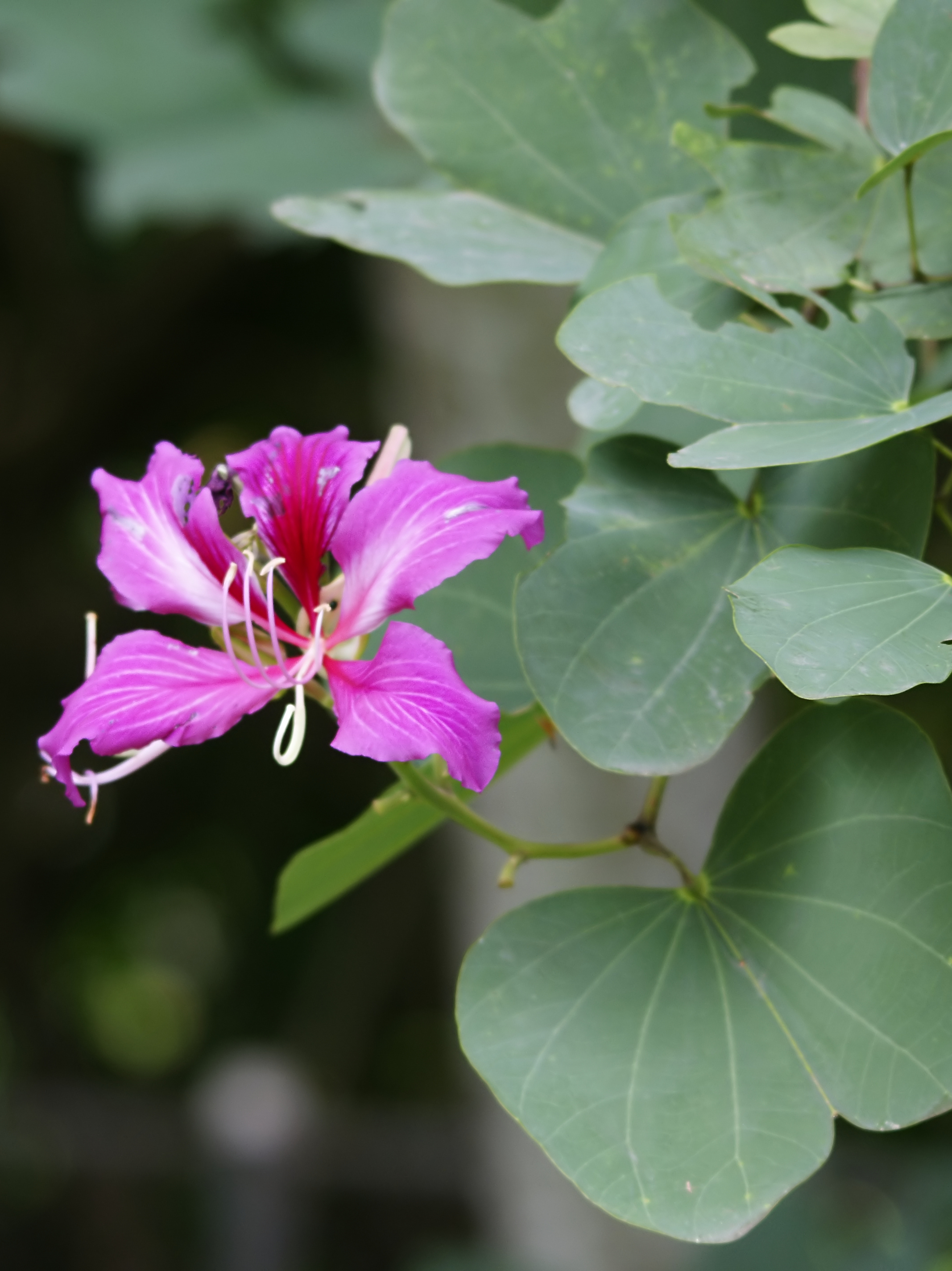 Bamboo orchid at La Garita, Alajuela, Costa Rica